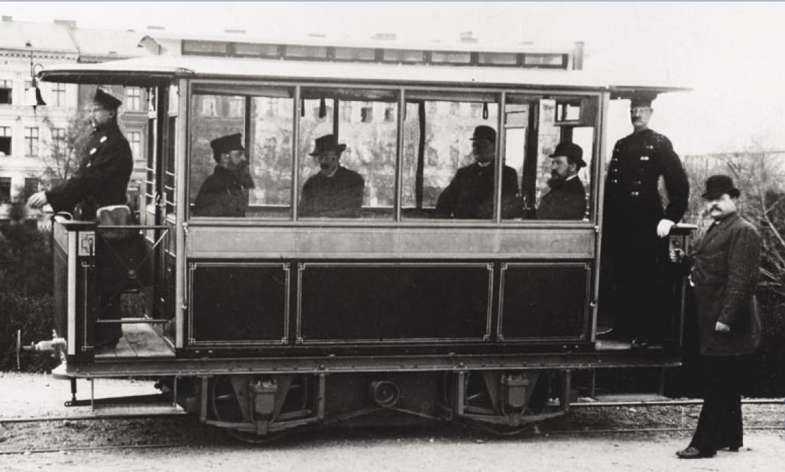 The world’s first electric tram, the Groß-Lichterfelde Tramway, began operation in 1881 in the Lichterfelde neighborhood of Berlin, Germany and was produced by Werner von Siemens. Direct current was supplied through the rails. The tram car is 5m long by 2m wide and weighs 4.8 tonnes. It travels at a maximum speed of 40 kilometres per hour and carries 20 people at a time. In the first three months of operation the tram had already carried 12,000 passengers.